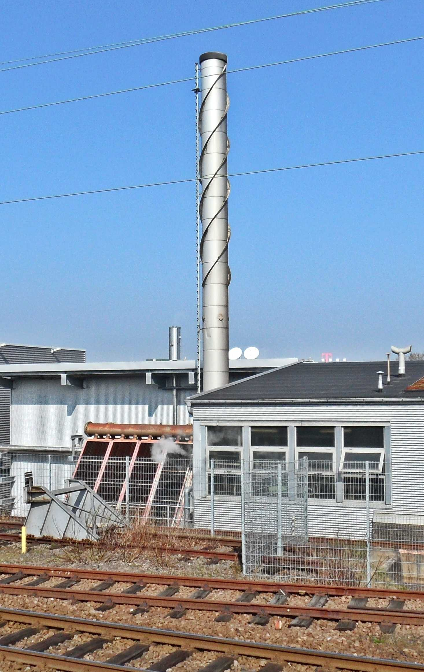 steel chimneys with spiral